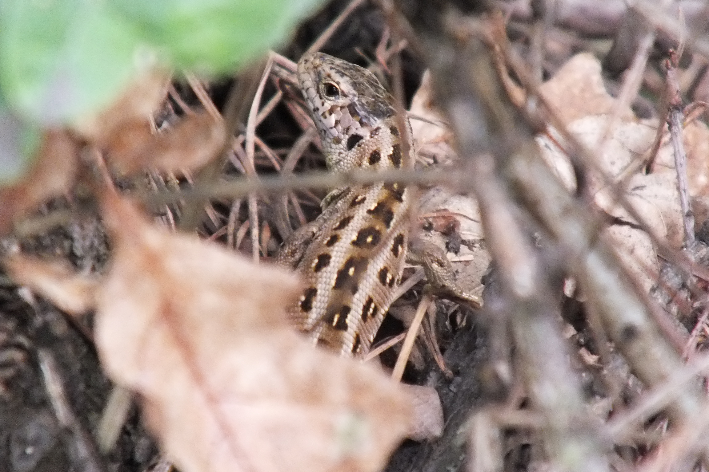 Sand Lizard (Lacerta agilis). Photo taken in Nature Park Velký Kosíř.